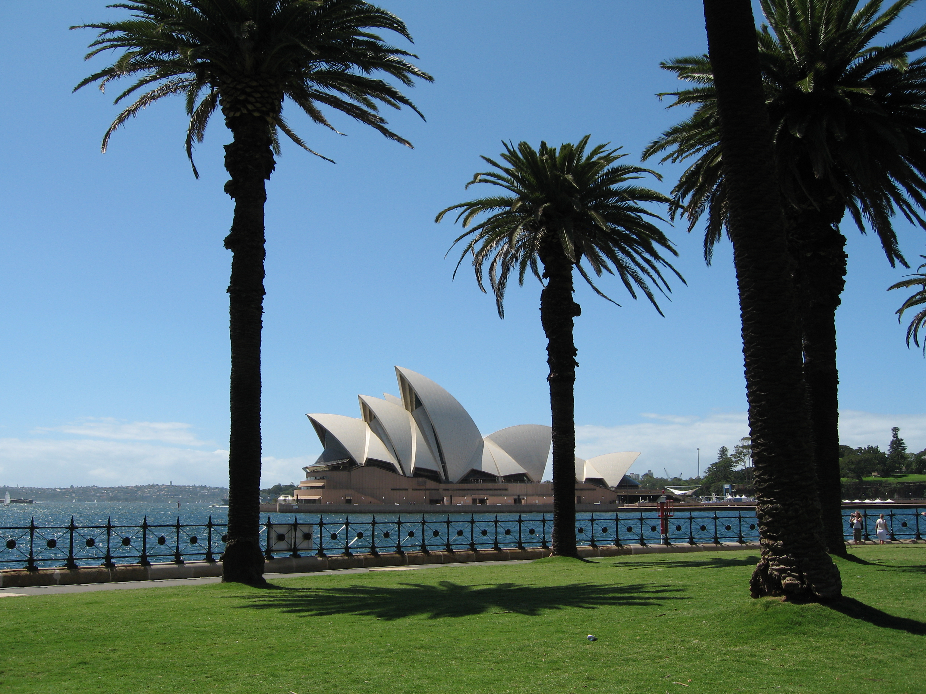 Sydney Opera House from Dawes Point, Sydney, Australia.